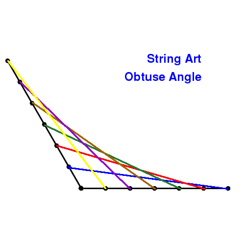 String Art - Obtuse Angle Created for AYHonors Wikibooks